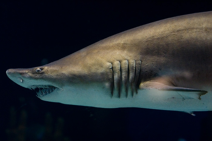 Carcharias taurus Grey nurse shark at the Minnesota Zoo in Apple Valley, MN. Photographer: Joe Lencioni. Category:Images of Minnesota